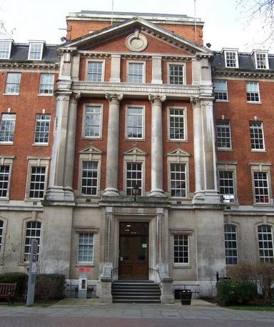 Shepherd's House, Guy's Campus,Kings College, London.